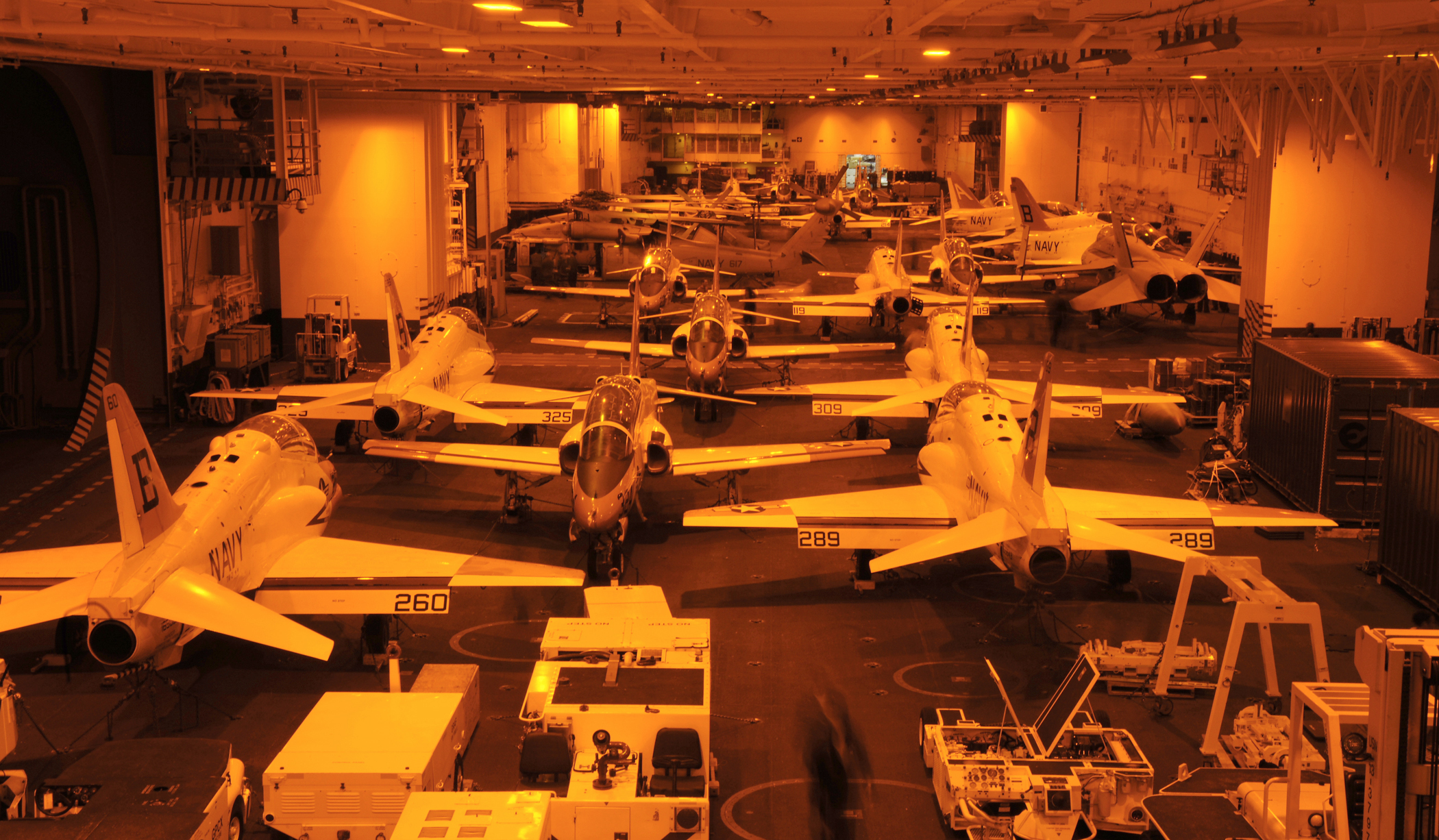 ATLANTIC OCEAN (April 25, 2010) Aircraft are secured in the hangar bay of the aircraft carrier USS George H.W. Bush (CVN 77) as a storm approaches. George H.W. Bush is conducting carrier qualifications in the Atlantic Ocean. (U.S. Navy photo by Mass Communication Specialist Seaman Apprentice Michael Smevog/Released)